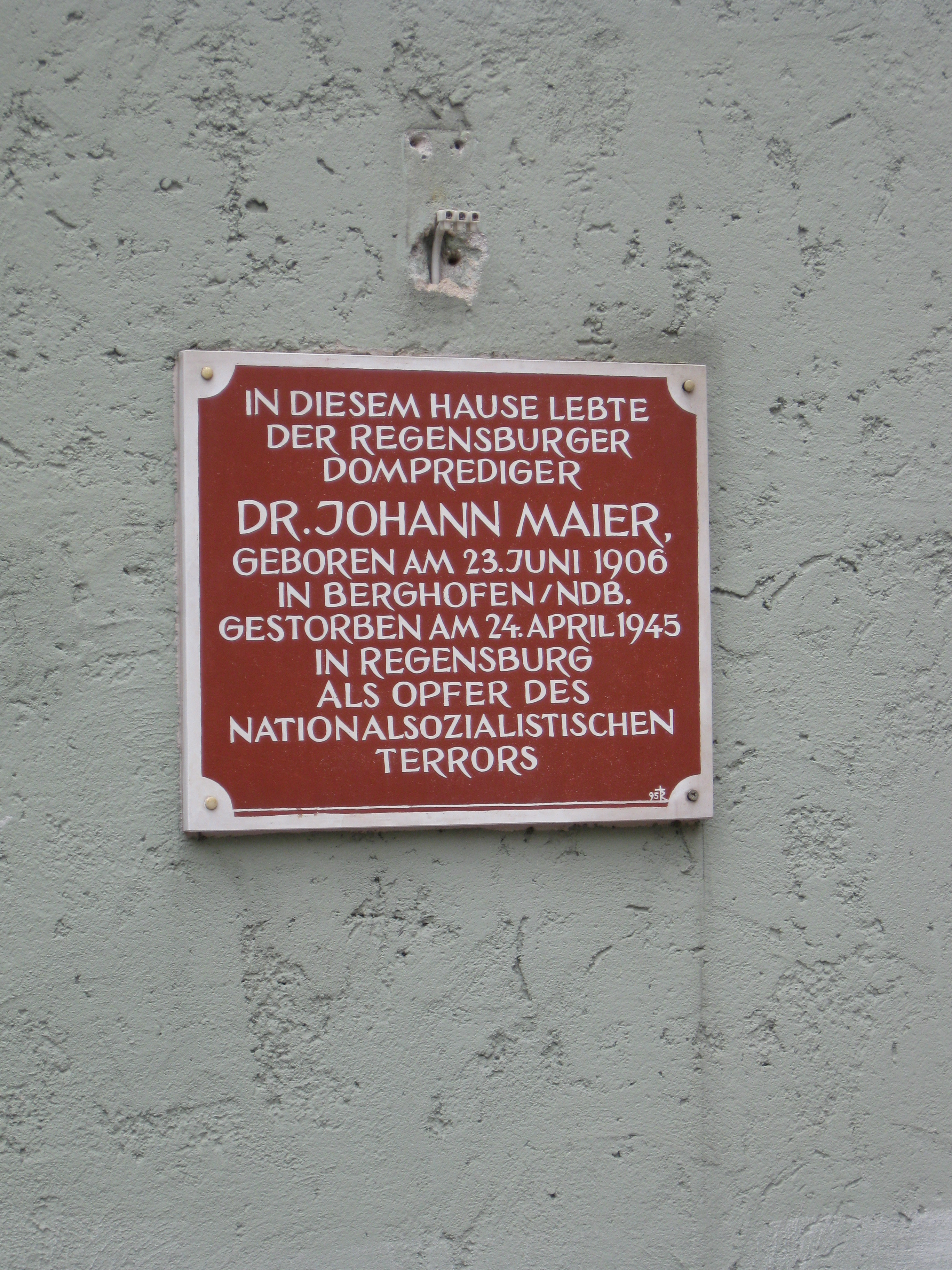 Memorial plaque for Johann Maier, a victim of "National Socialism" in April 1945, Regensburg